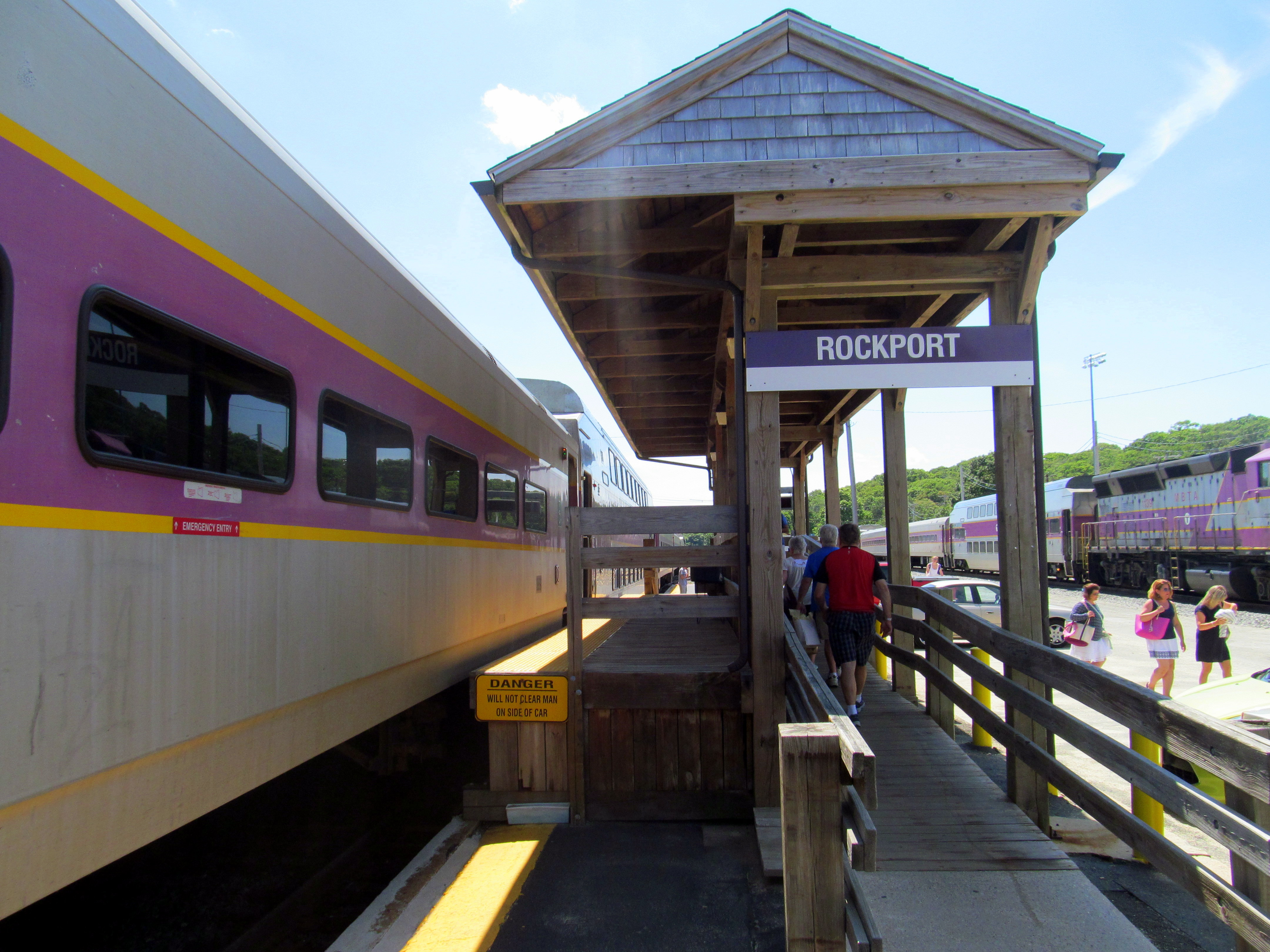 The mini-high platform at Rockport station in July 2016